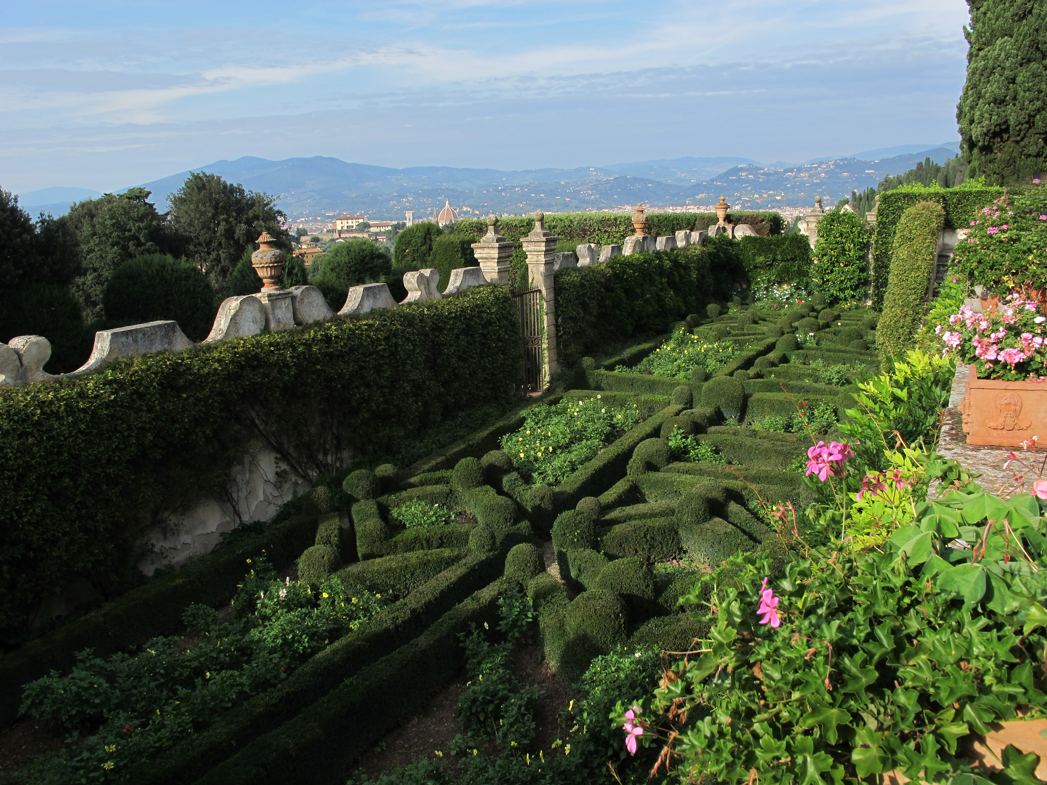 Villa Capponi (Florence) - Gardens